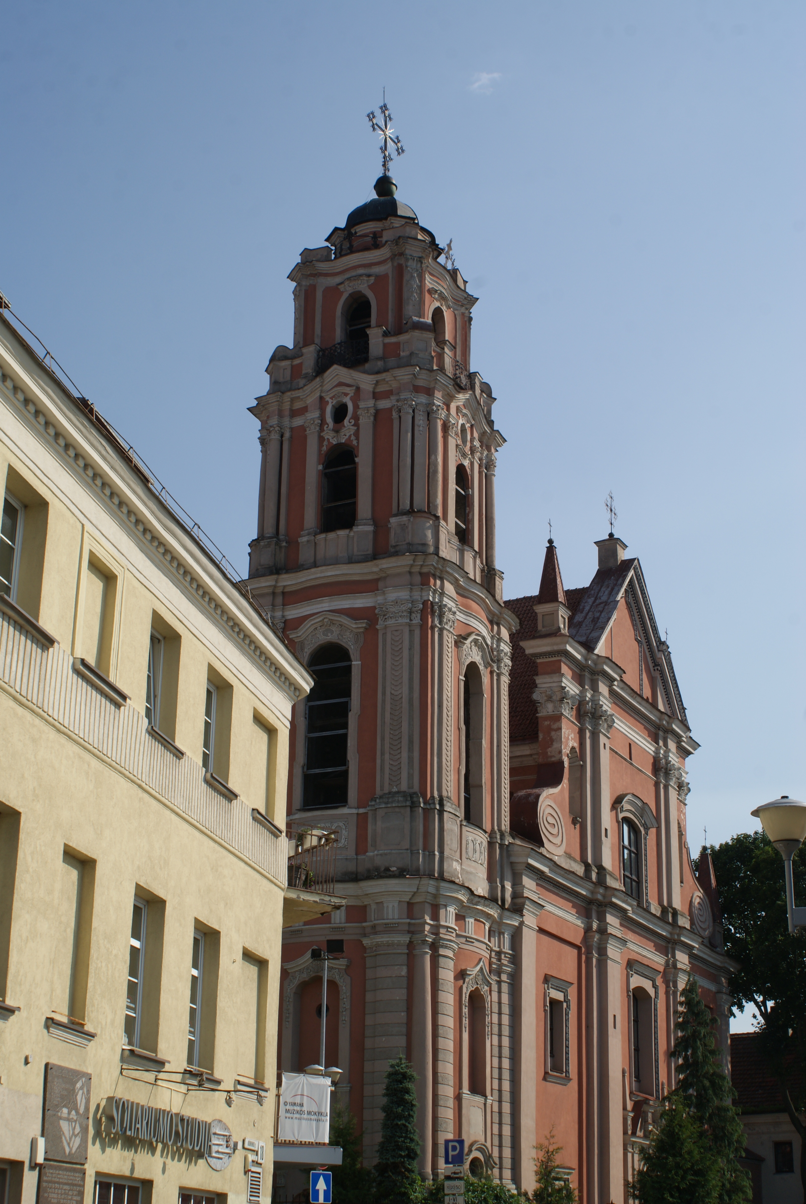 Church of All Saints in Vilnius